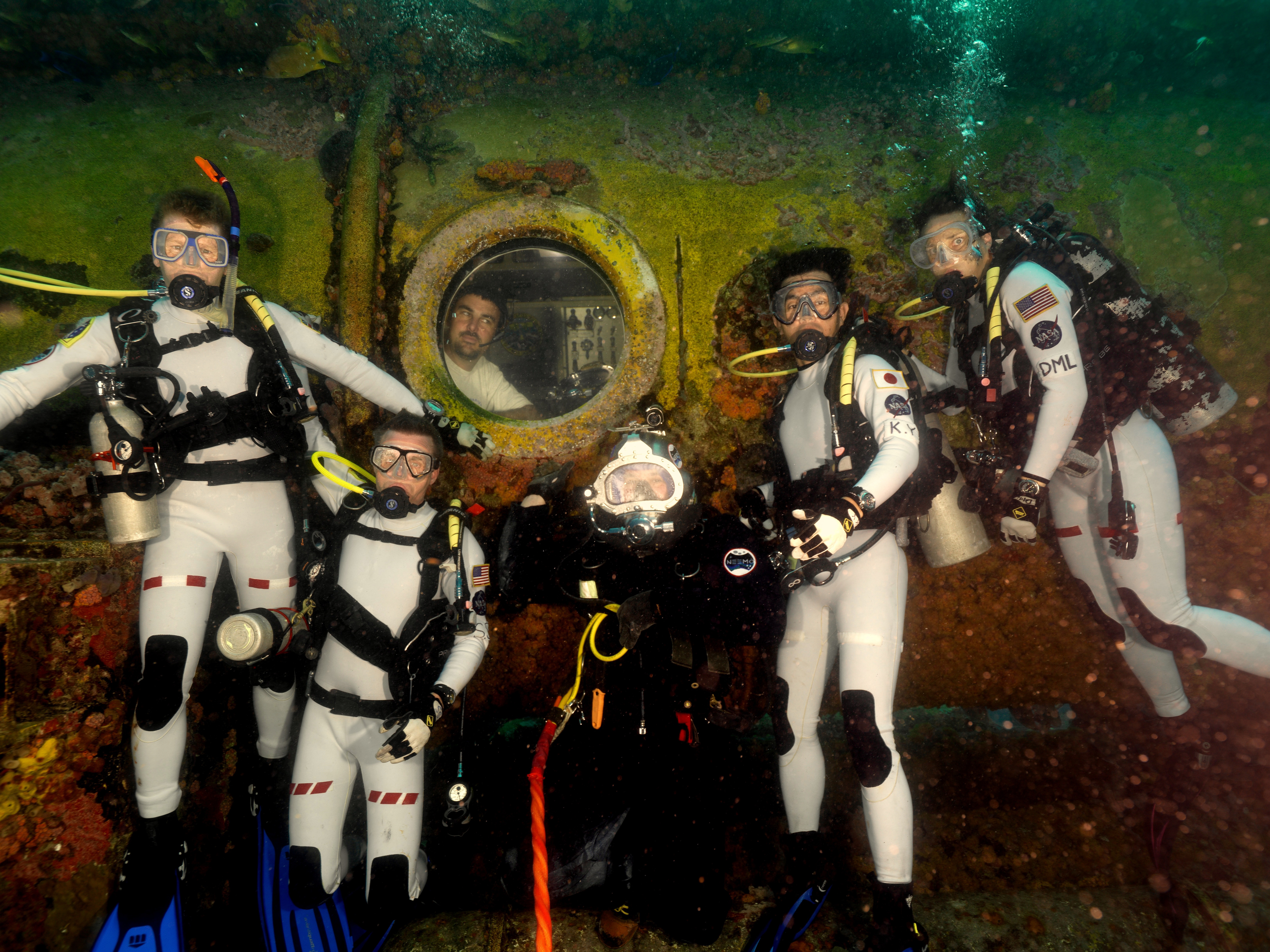 The aquanaut crew of the NEEMO 16 underwater exploration mission at the Aquarius Reef Base underwater habitat on Mission Day 1 (June 11, 2012). Left to right outside habitat: European Space Agency astronaut Timothy Peake, Cornell University astrophysicist Steve Squyres, Aquarius habitat technician Justin Brown, JAXA astronaut Kimiya Yui, and NASA astronaut/NEEMO 16 commander Dorothy Metcalf-Lindenburger. Inside habitat: Aquarius habitat technician James Talacek. NASA photo in public domain.